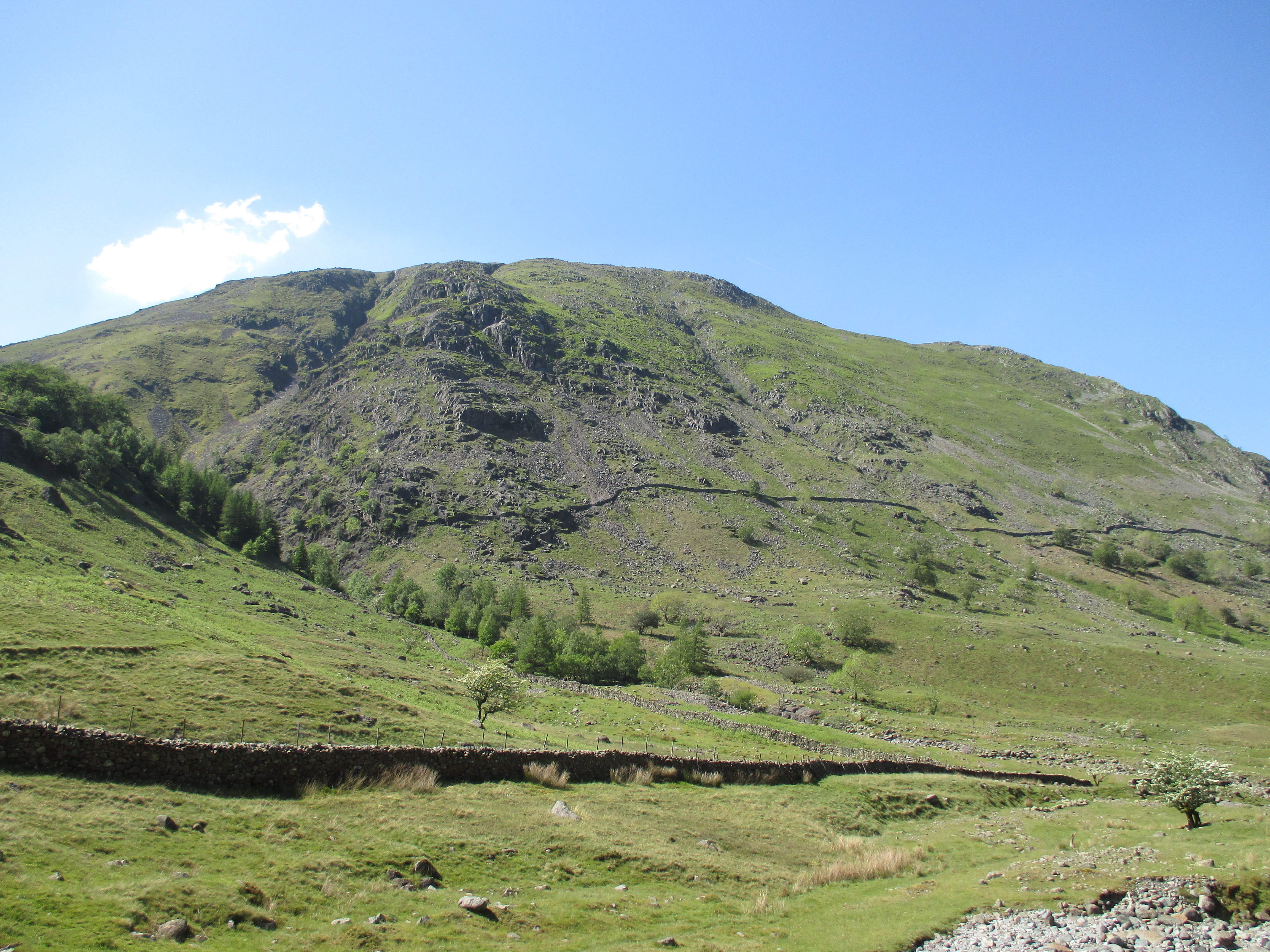 Base Brown seen from Stockley Bridge, three quarters of a mile south of Seathwaite, Borrowdale, Cumbria.